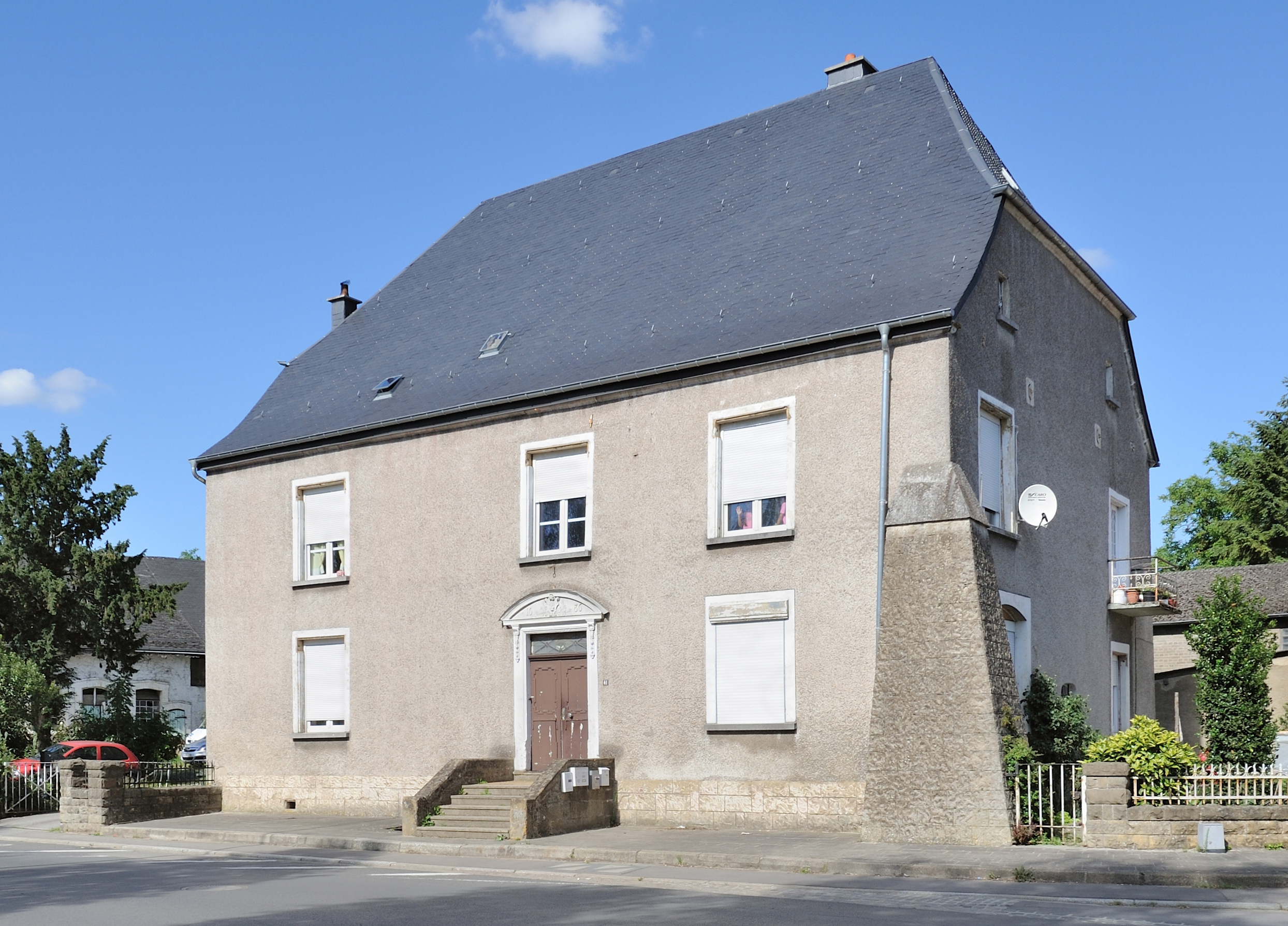 Luxembourg Lintgen: the house where Johann Philipp Bettendorff (1625-1698) was born.